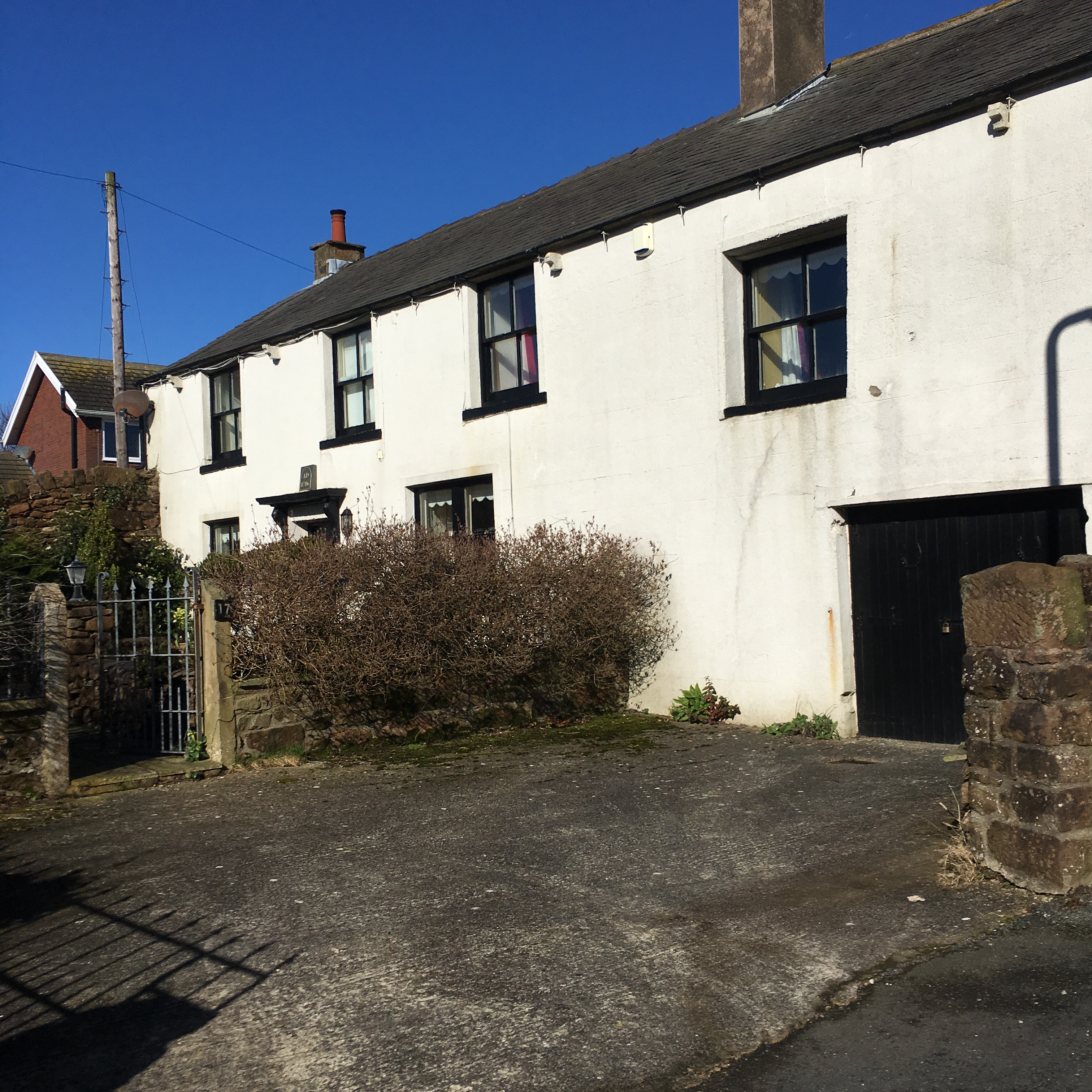 Grade II listed 17 Roanhead Lane, Hawcoat, Barrow-in-Furness dated 1716